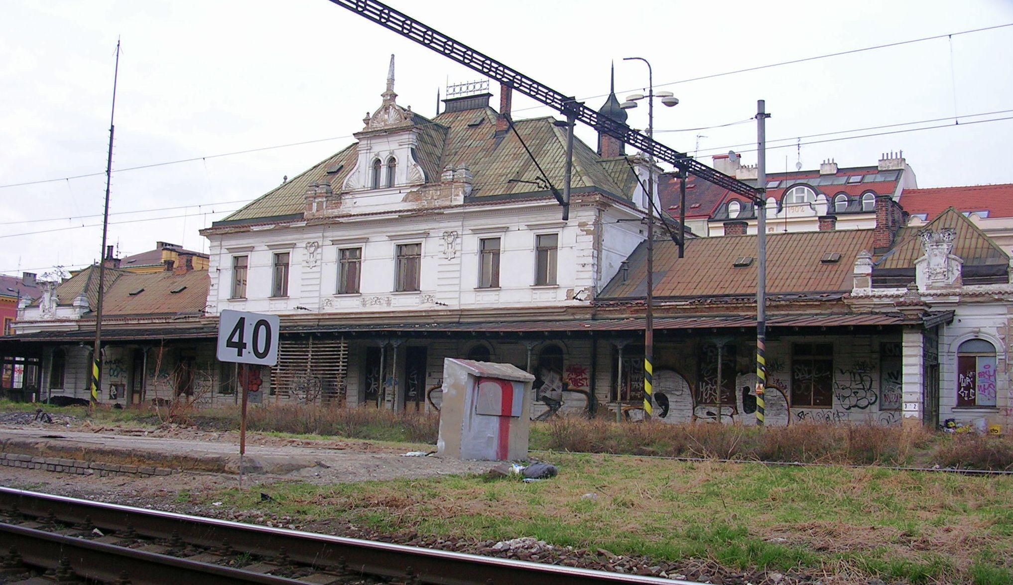 Vyšehrad, Prague, the Czech Republic. Former train station Praha-Vyšehrad.